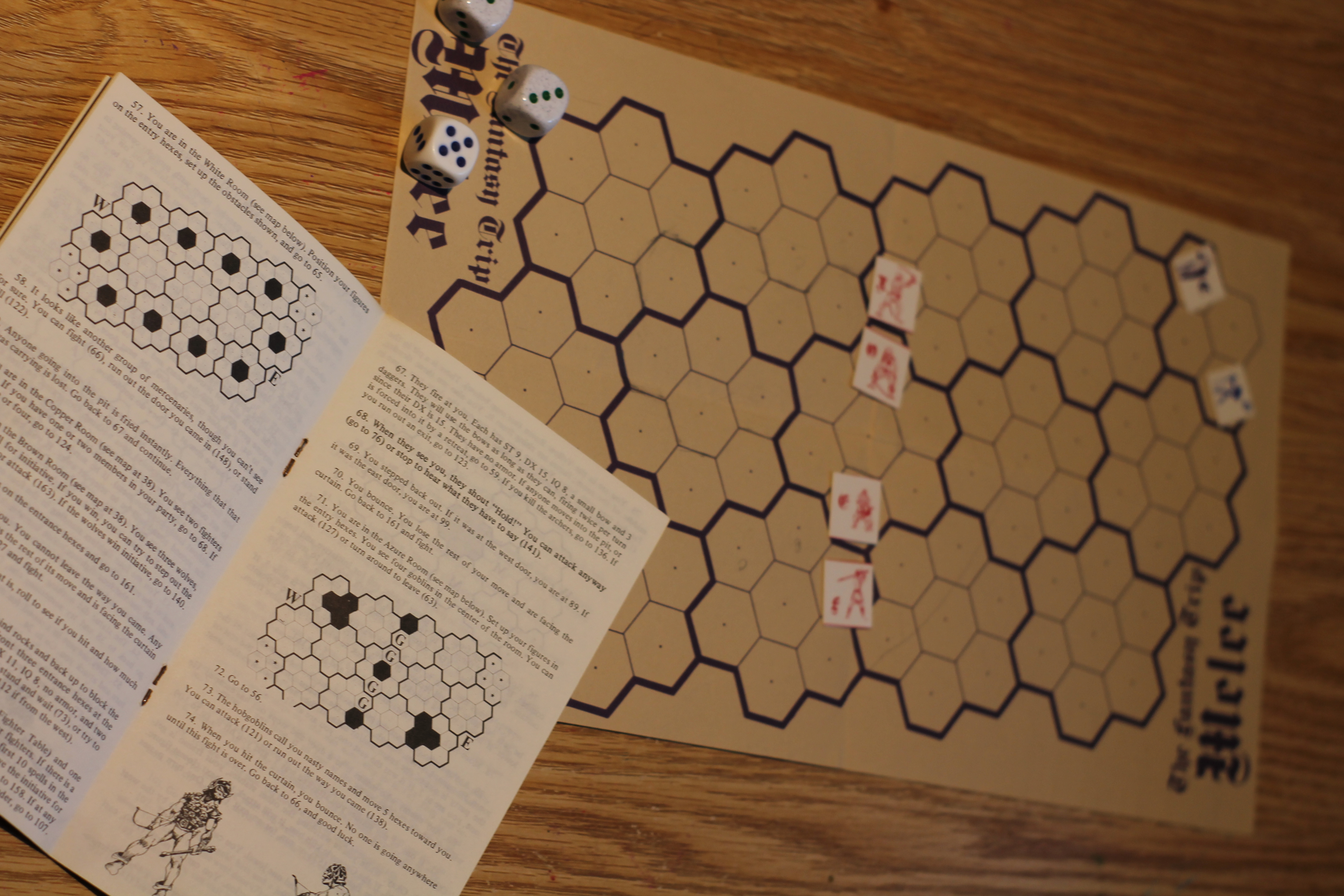 A scenario from the Metagaming version of The Fantasy Trip Death Test MicroQuest being played. Shown are counters from the game, the Death Test booklet, and the Melee arena map.